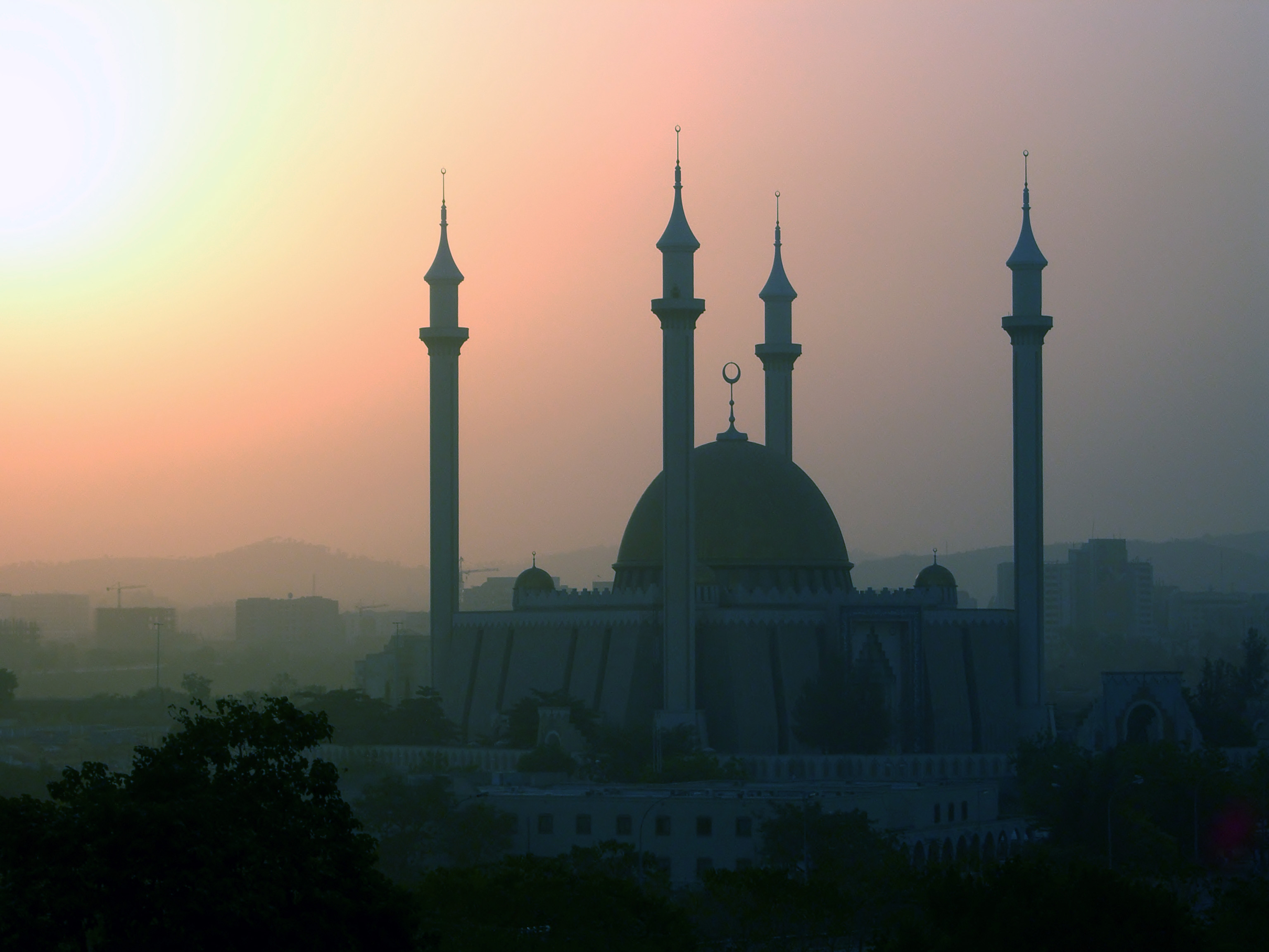 The sand/dust from the harmattan coming from the Sahara gives the Nigeria's National Mosque in Abuja, a nice glow.